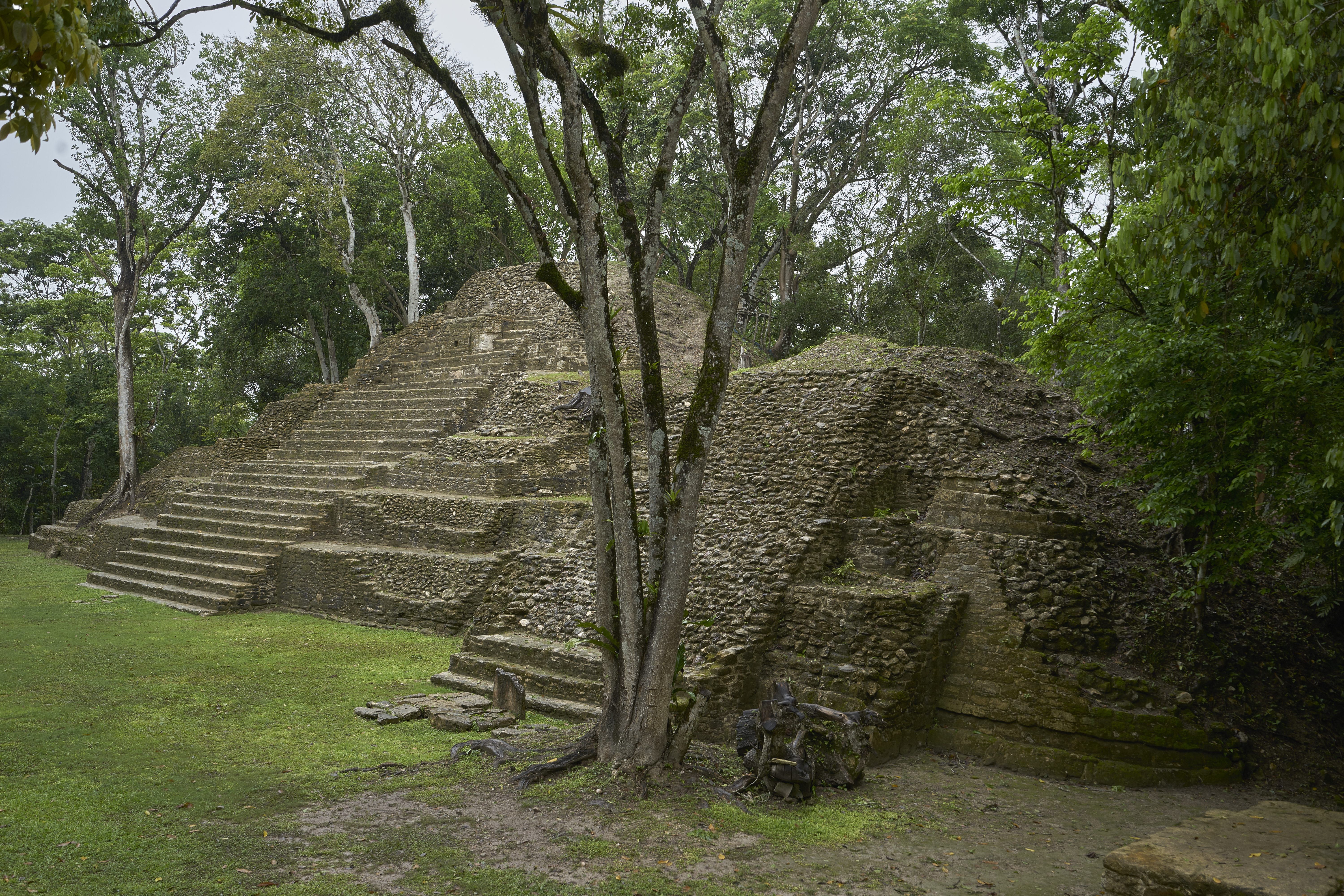 Structure B1 and B3 (B3 in front) seen from B4 at Cahal Pech - Archaeological site, San Ignacio, Belize The making of this document was supported by the Community-Budget of Wikimedia Germany.